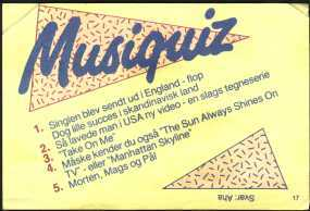 Jolly Cola etiket